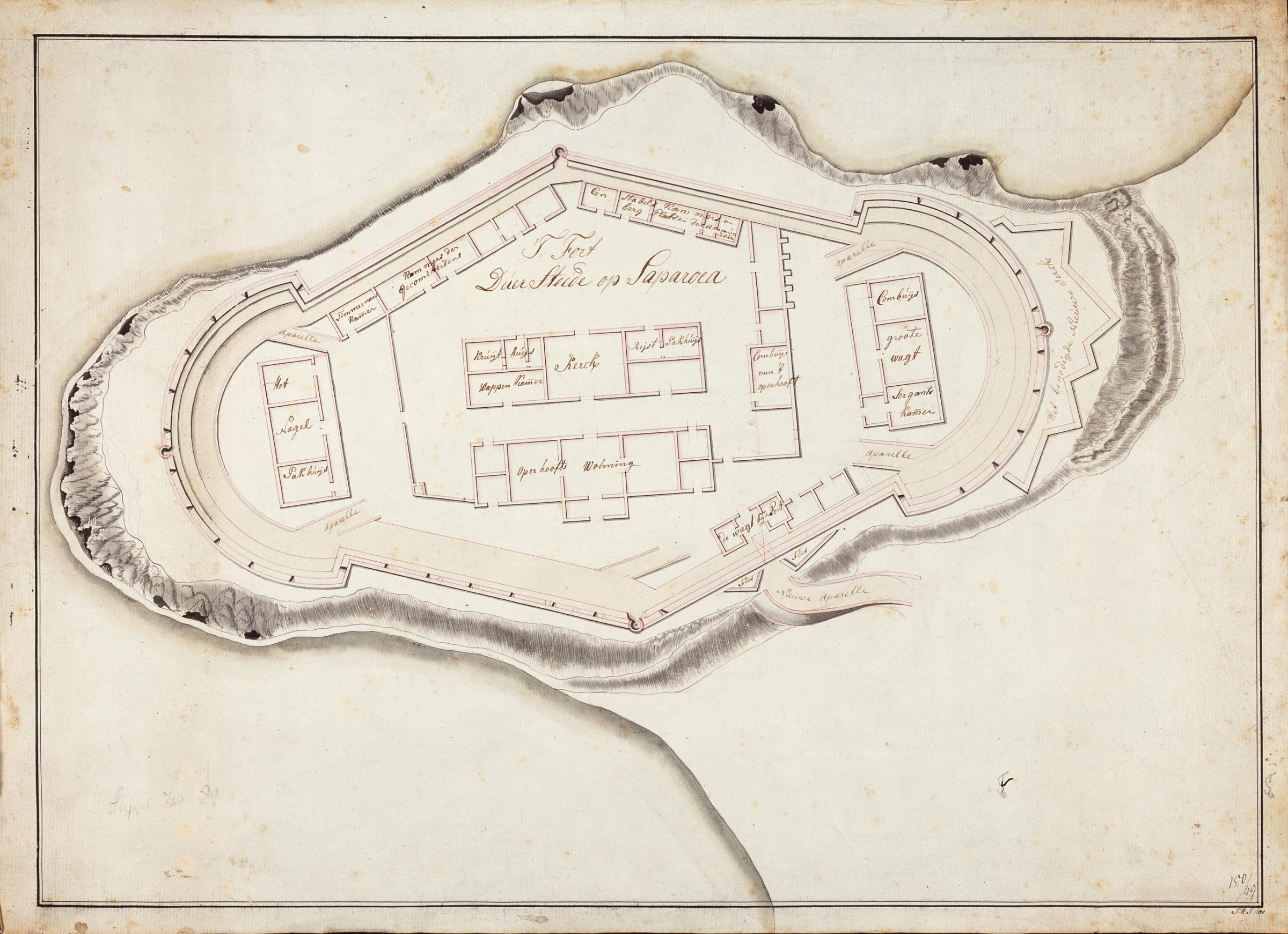 Title in the Leupe catalogue (NA): Plattegrond van het "fort Duerstede op Saparoea". Notes on reverse: kaarten en .... (Molluccos) no. 9 [in pencil] / 150/49 [in pencil].